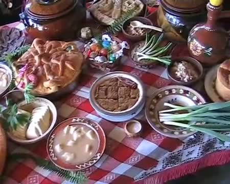 kulinar